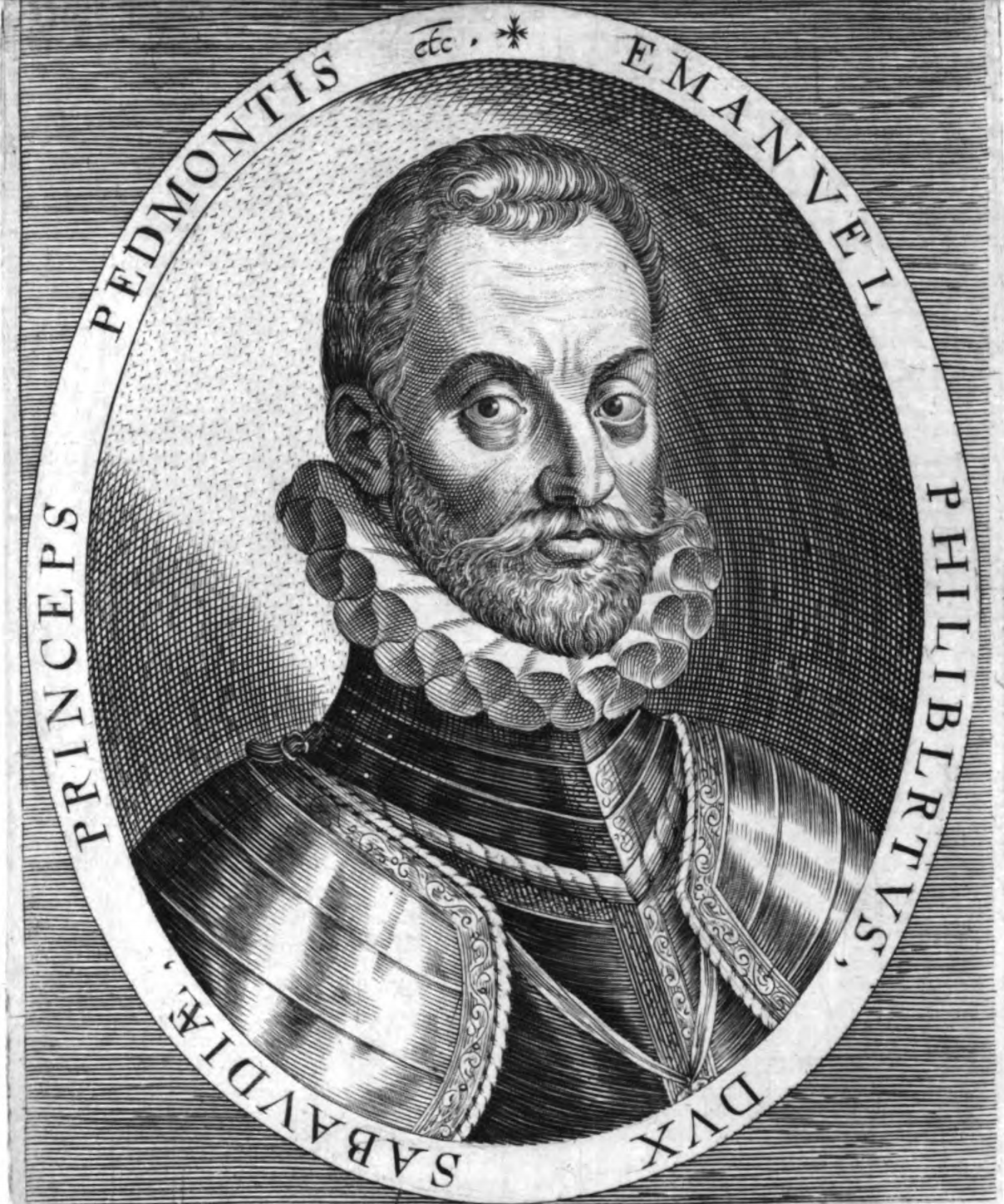 Emanuel Philibert Sabaudiae